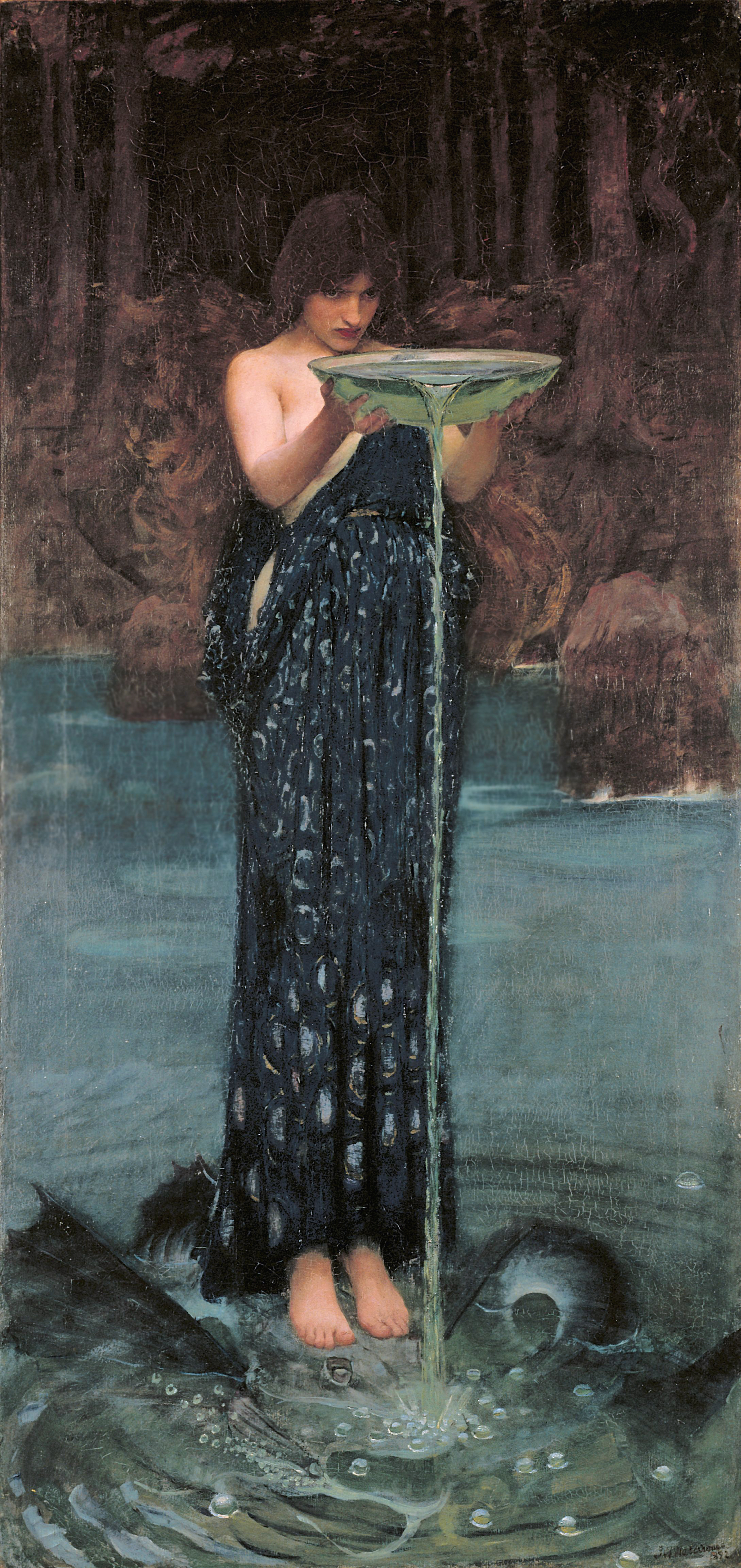 Image of Circe, a figure from Greek mythology, who appears in Homer's Odyssey. This painting shows a scene not from the Odyssey, but from Ovid's Metamorphoses. A jealous Circe throws a magic potion into the well, where her rival in love Scylla is going to bathe.